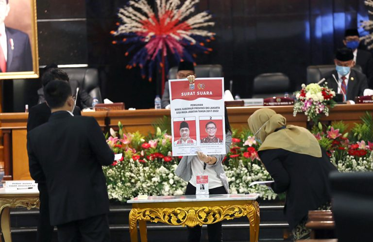 DPRD Holds Plenary Election of Vice Governor of DKI Jakarta for the Rest of 2017-2022